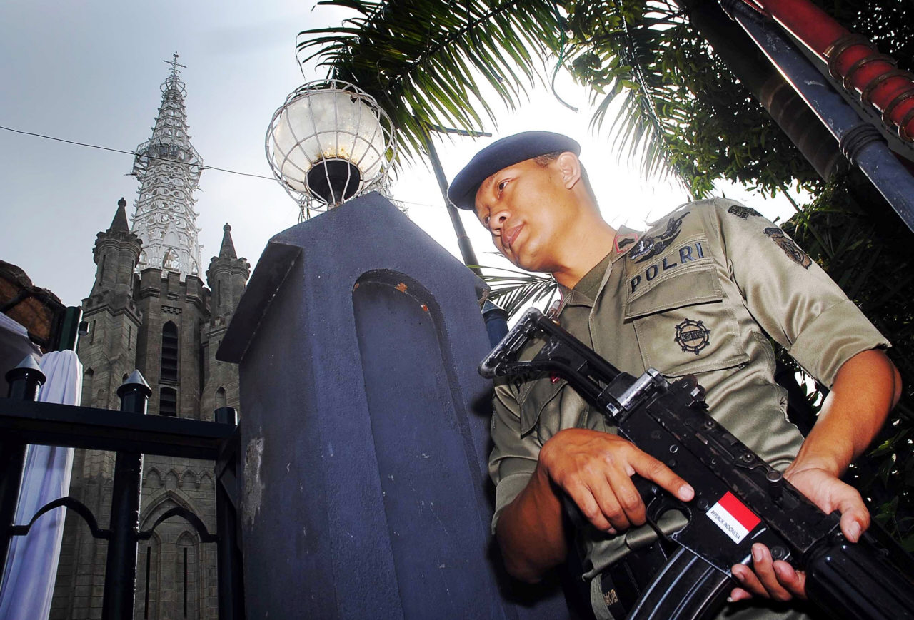 A Sabhara officer with the Pindad SS-1 assault rifle.